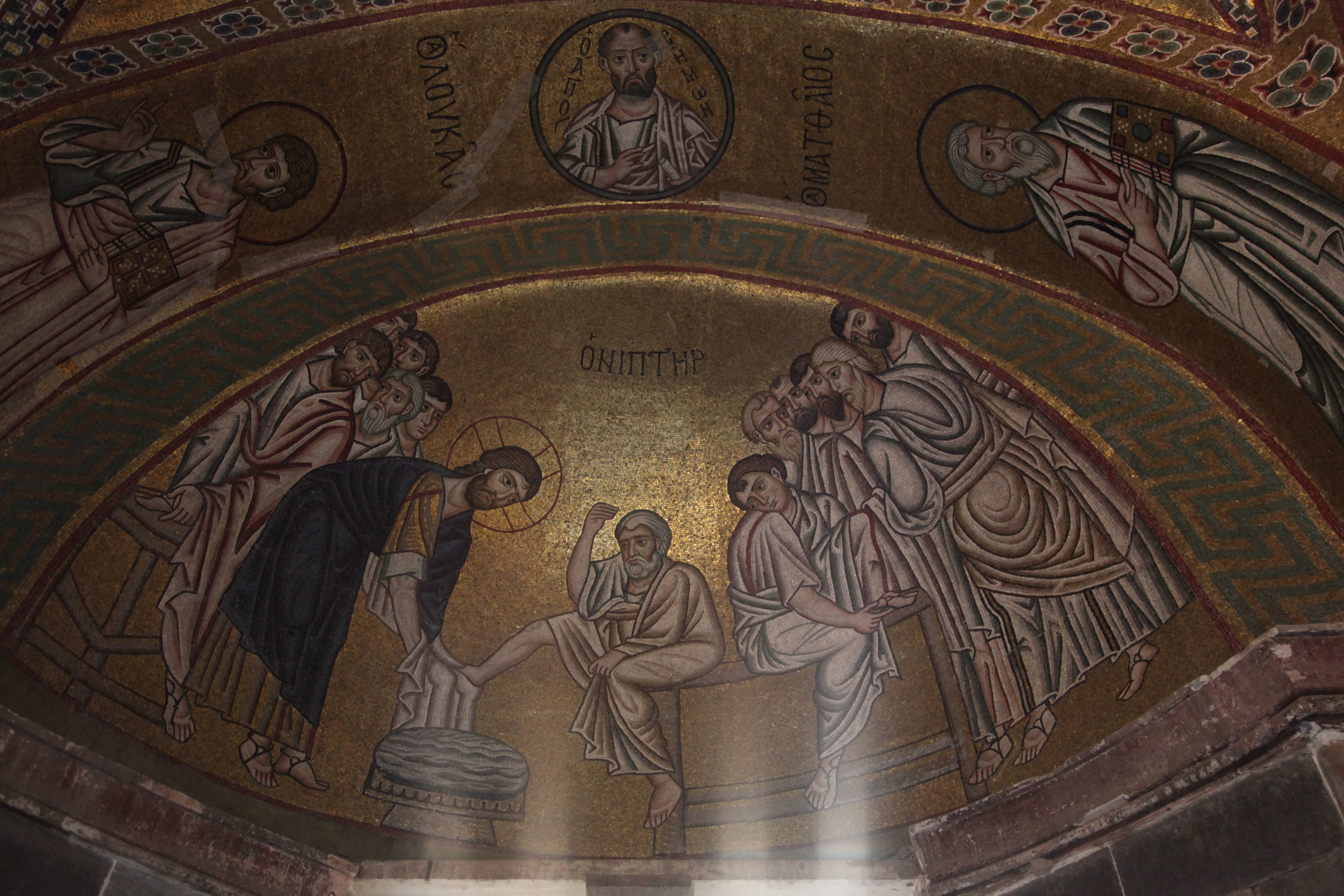 Monastery of Hosios Loukas - Google Maps - Google Earth